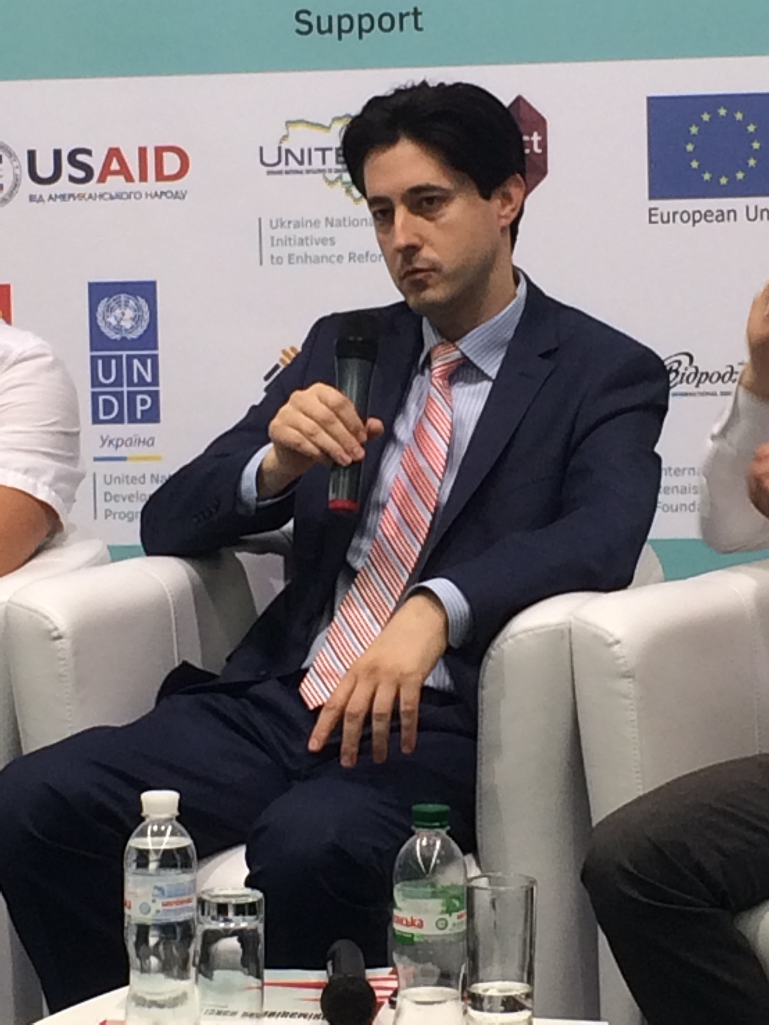 Vitaly Kasko at RPR Forum